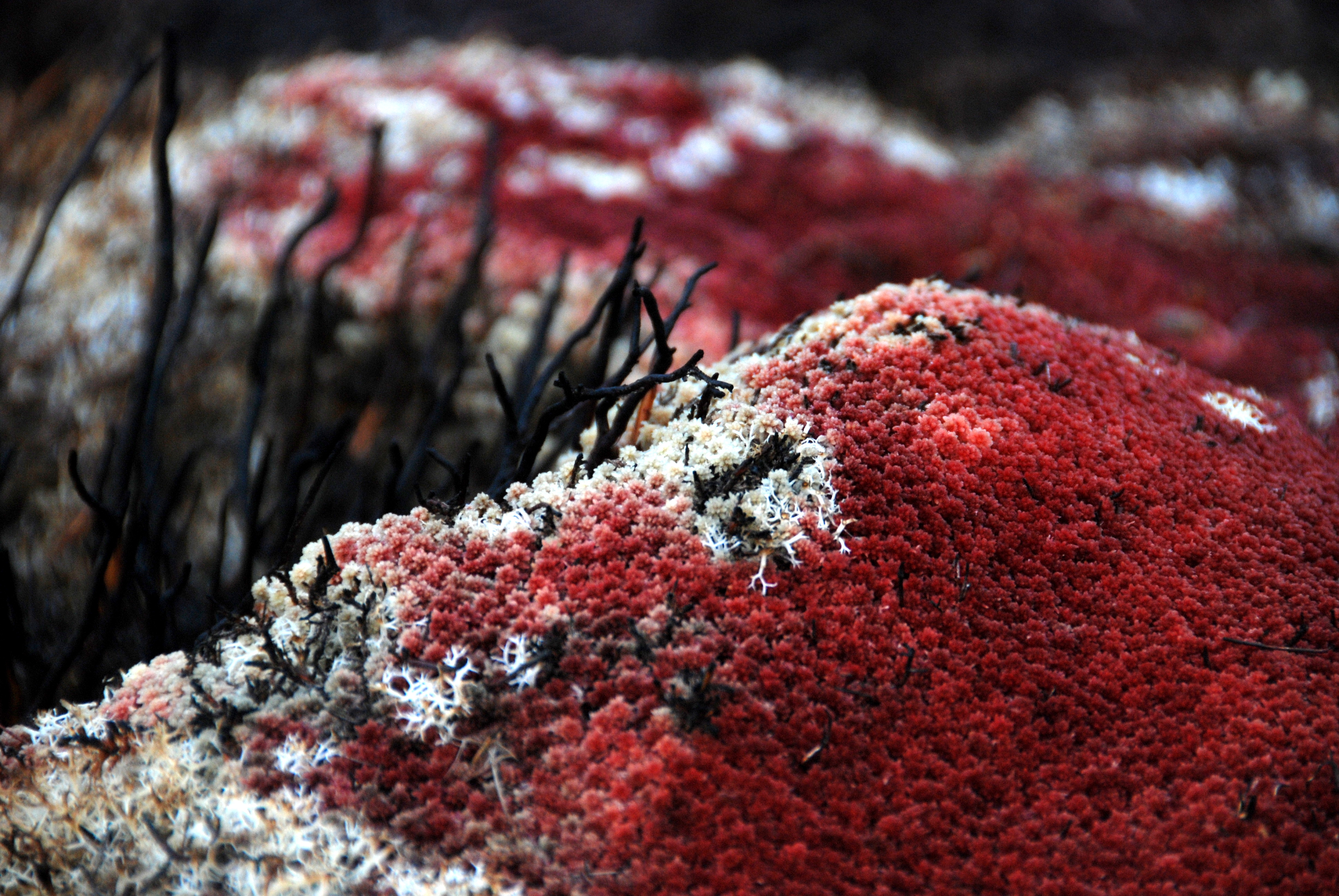 Close-up view of red sphagnum near Carrbridge, Scotland